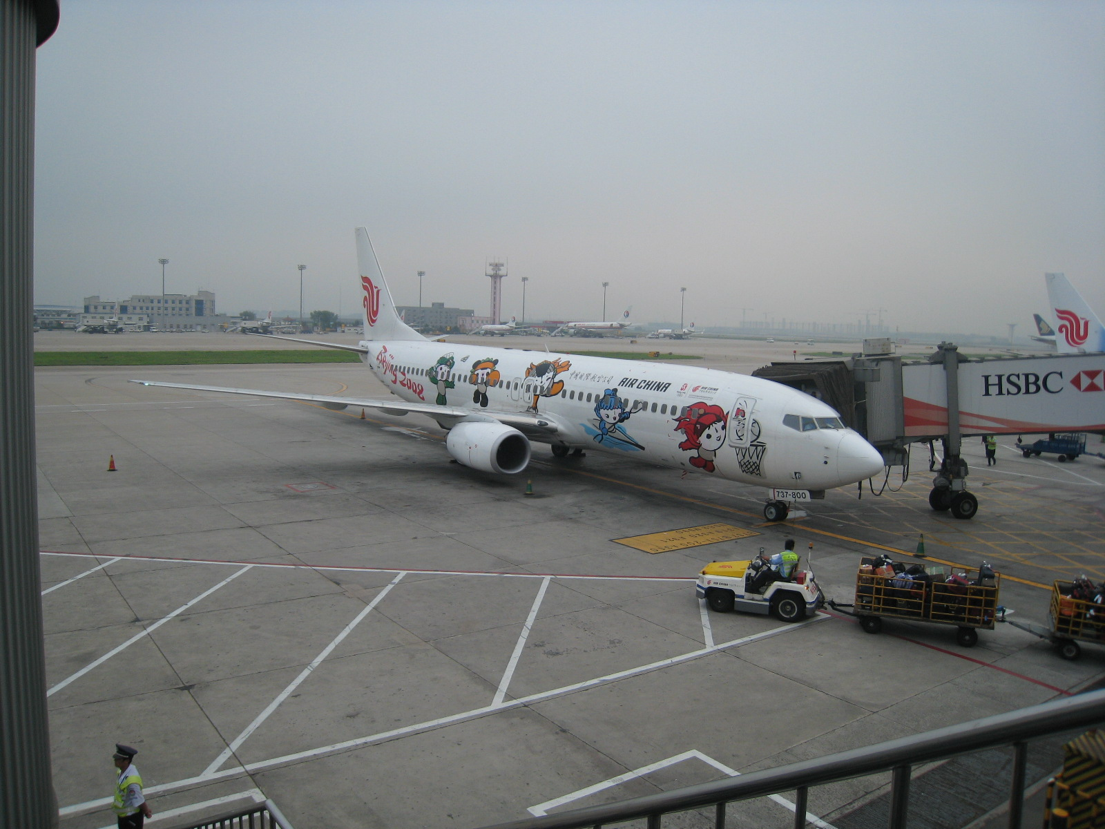 Air China's Boeing 737-800 parked at Beijing Capital International Airport. (July 2007)